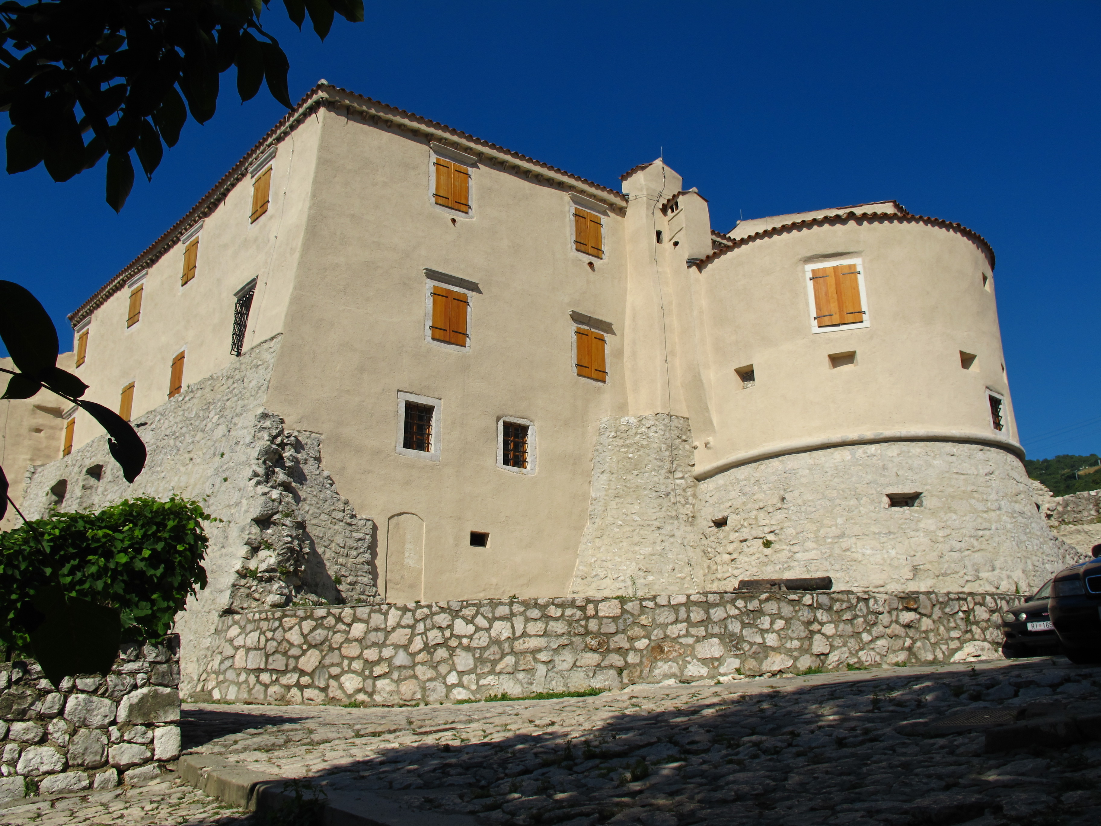 Fort of Barkar at Bay of Bakar / Croatia / Adriatic Sea.